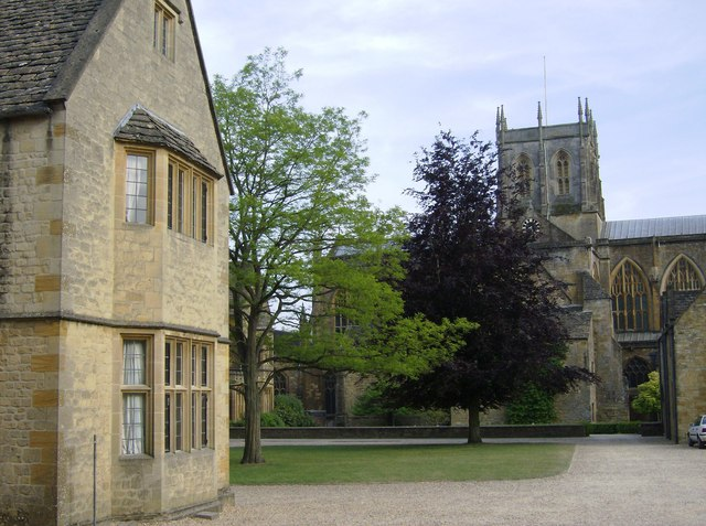 Courtyard in Sherborne school Part of Sherborne school with the north side of the abbey beyond.